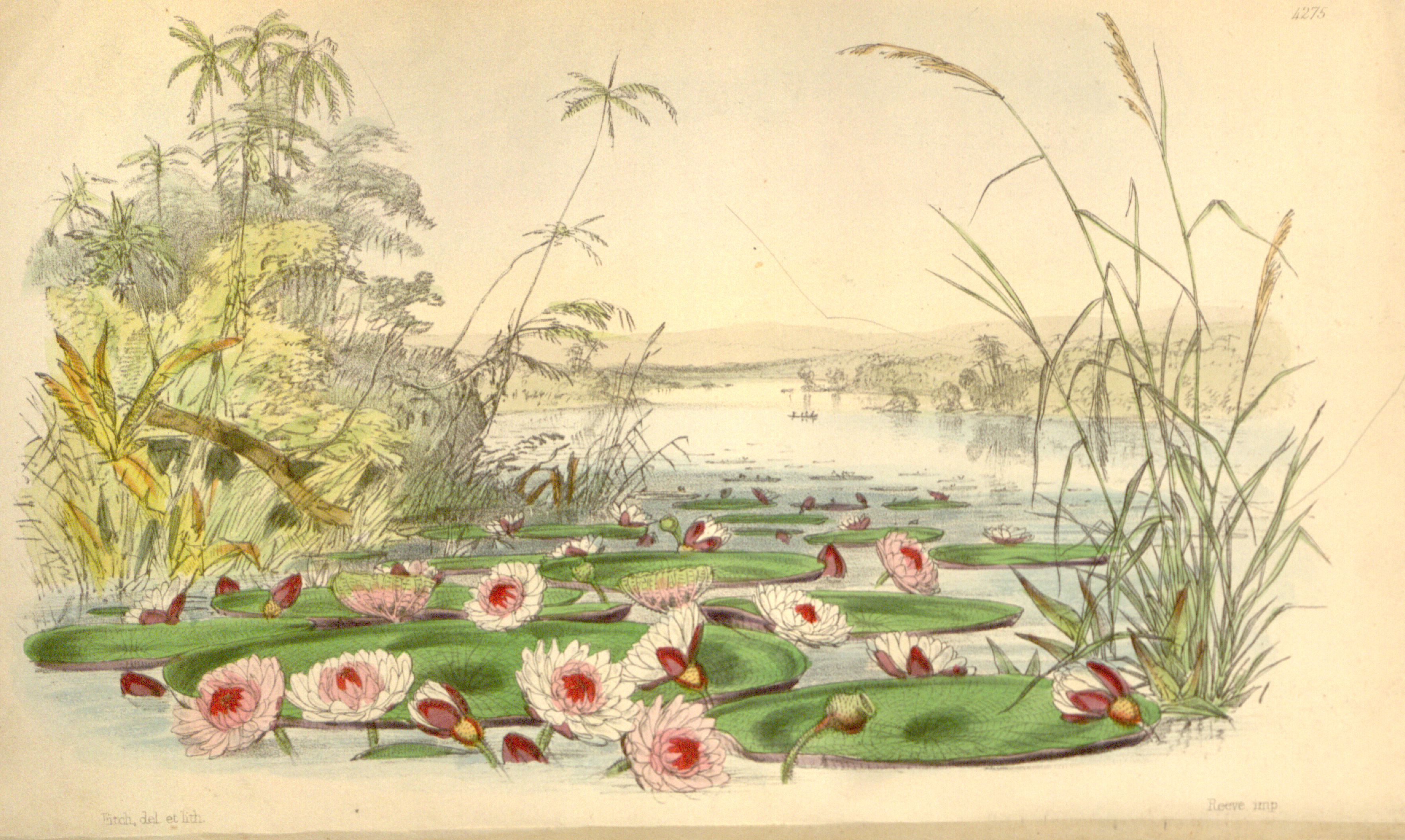 This is a plate from Curtis's Botanical Magazine, Volume 73.